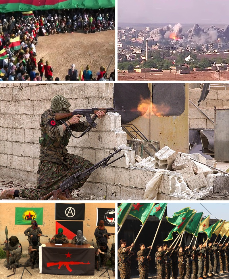 Collage